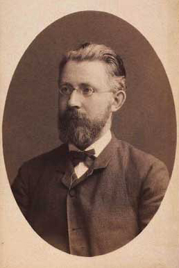 Camillus Nyrop